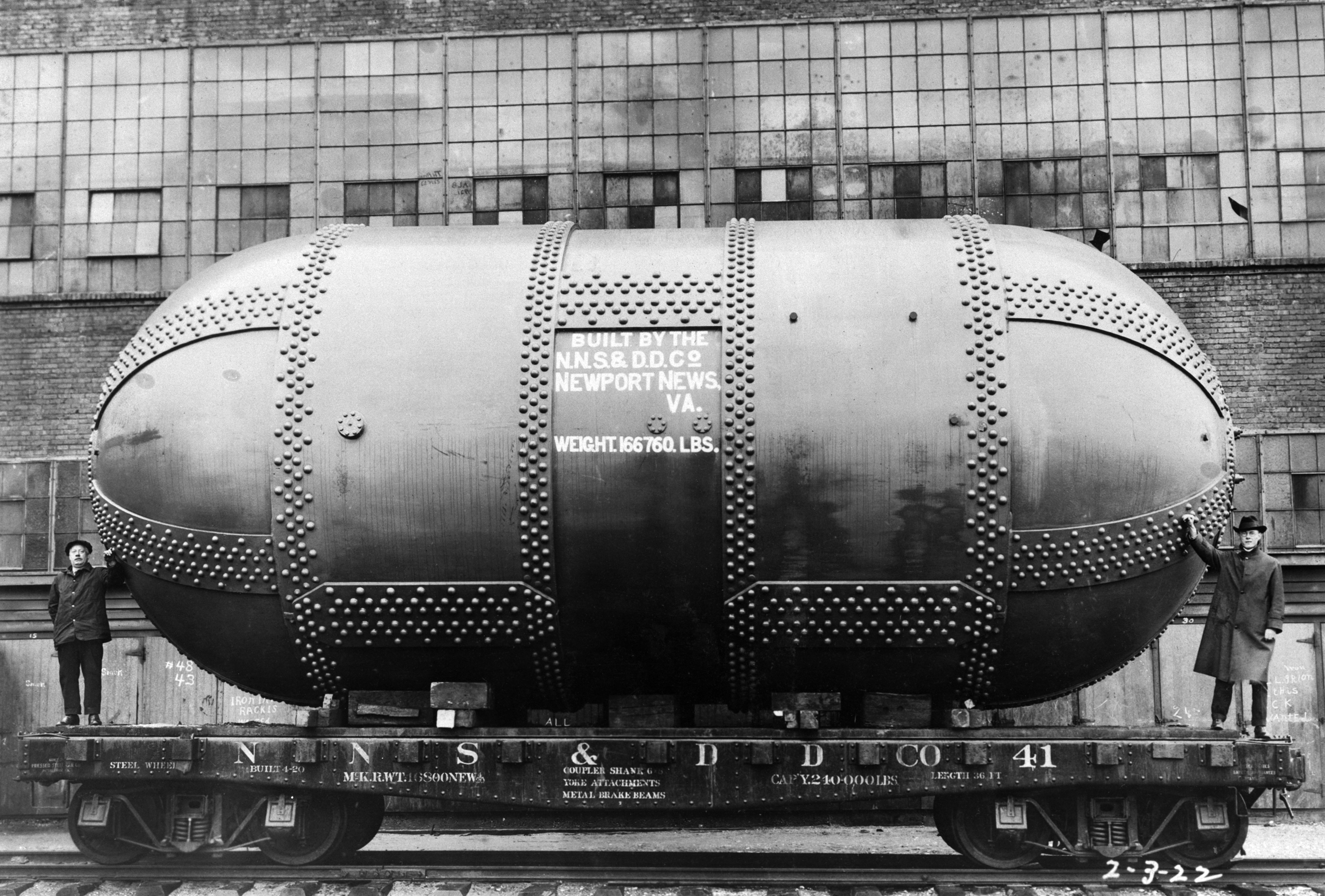 The Variable Density Tunnel photographed arriving at the Langley Research Center by rail on February 3, 1922 from the Newport News Shipbuilding and Dry Dock Company. The closed-circuit tunnel, which could run at speeds up to 50 mph (80 km/h), was enclosed in an 80-ton steel enclosure that permitted operations at high pressure (up to 21 atmospheres). Maintaining high pressure permitted realistic testing conditions for airfoils while maintaining relatively low operating speeds, according to the Reynolds Number similarity parameter.